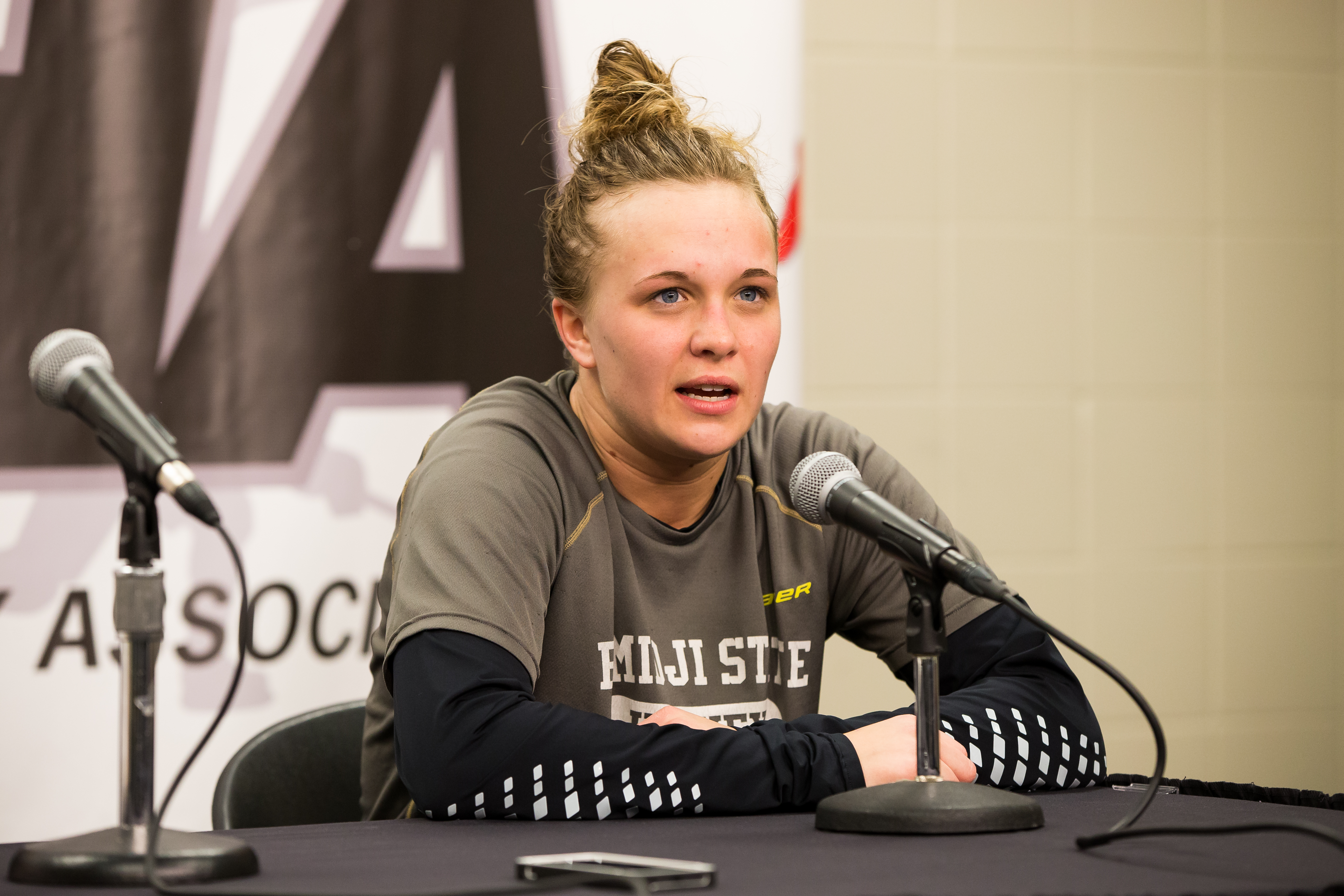 Stephanie Anderson addresses the media after her game winning goal in the 2015 WCHA Semifinals versus the Minnesota Gophers.